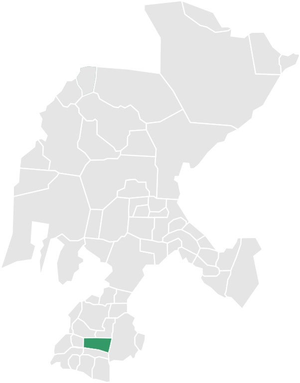 Map of the Municipality of Apozol in Zacatecas, México.